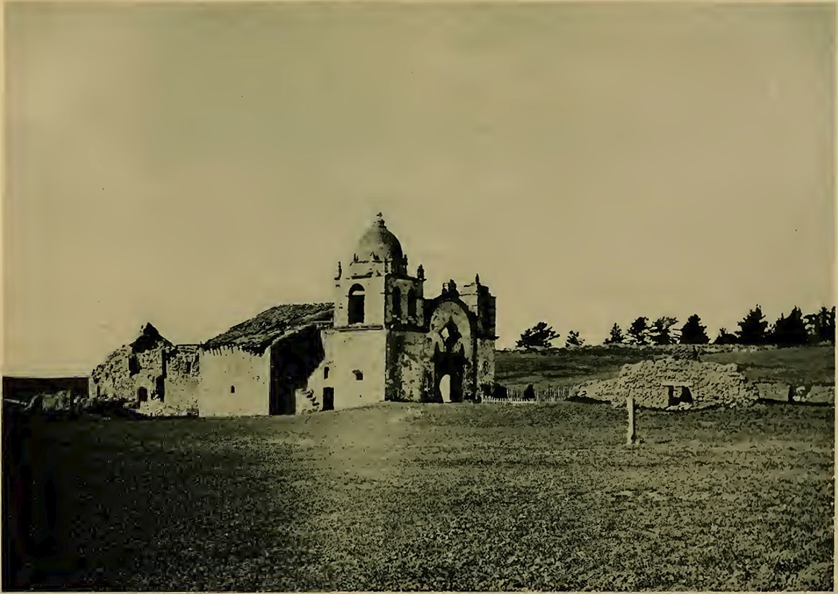 The San Carlos Mission circa 1893.